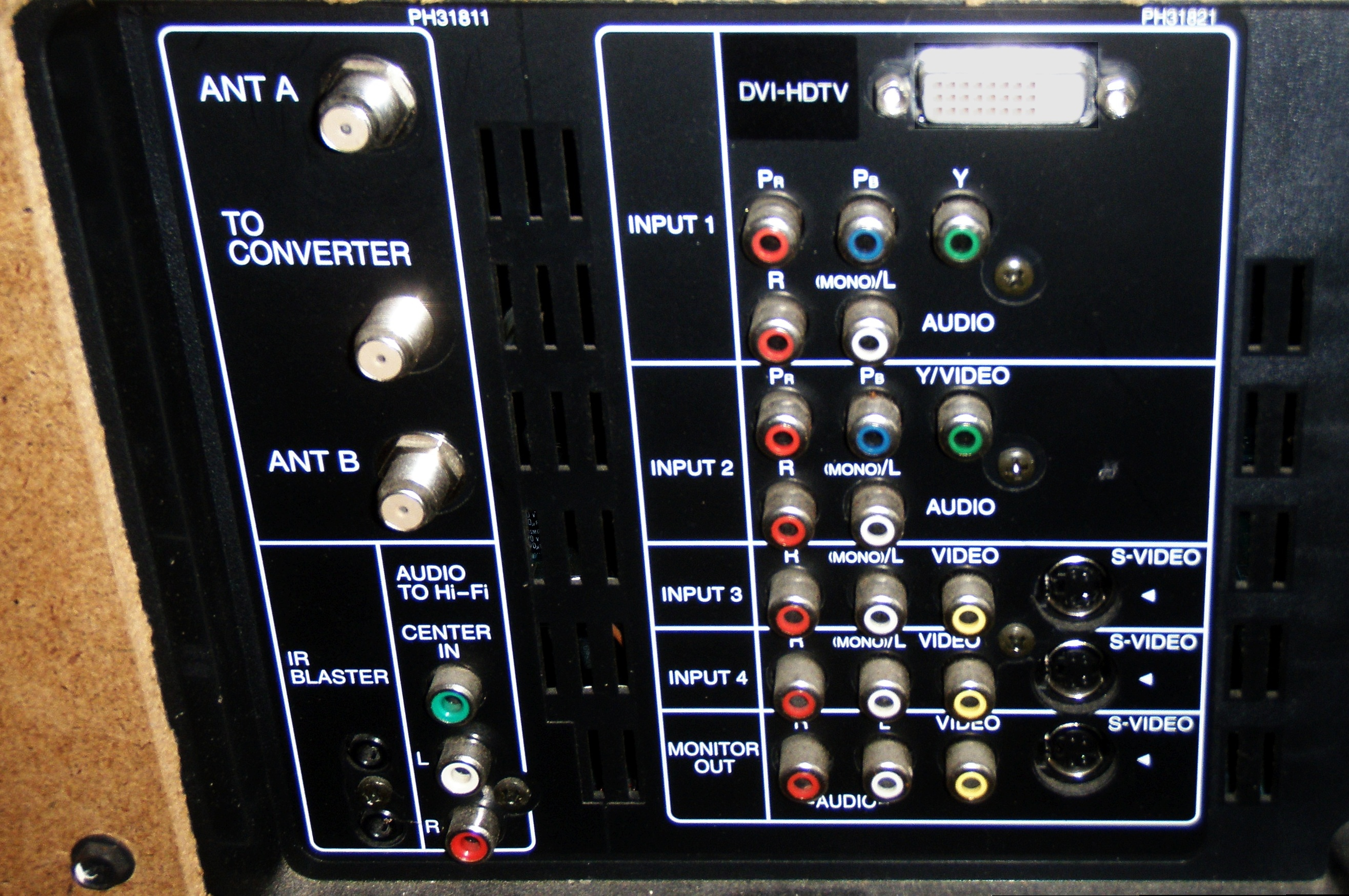 Early 1080i HDTV "monitor" Projection TV includes digital video input (DVI), and analog HD-capable inputs, YPbPr component video. HD-ready meaning no ATSC digital television tuner. No digital audio in or out, but a "Center channel in" for use of internal speakers as a front-center speaker in surround sound.